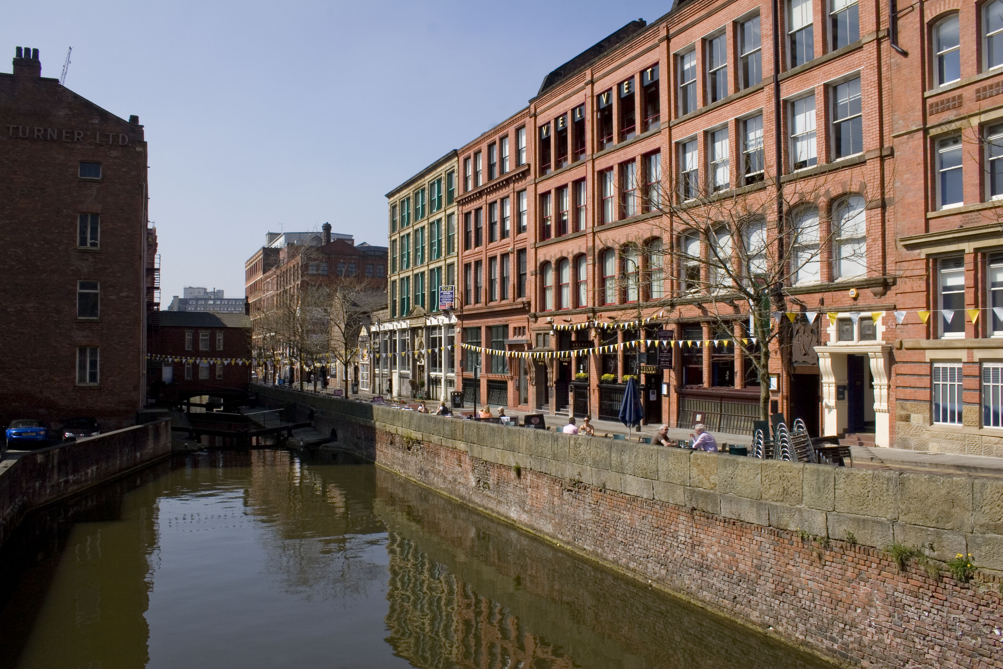 Canal Street, viewed from Minshull Street in Manchester